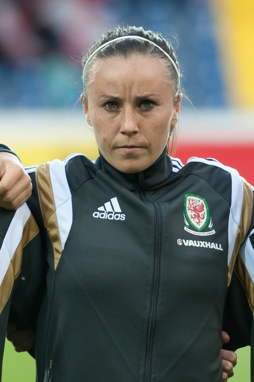 Women's Euro Qualification Austria vs. Wales, 2015-09-22, St. Pölten, Lower Austria